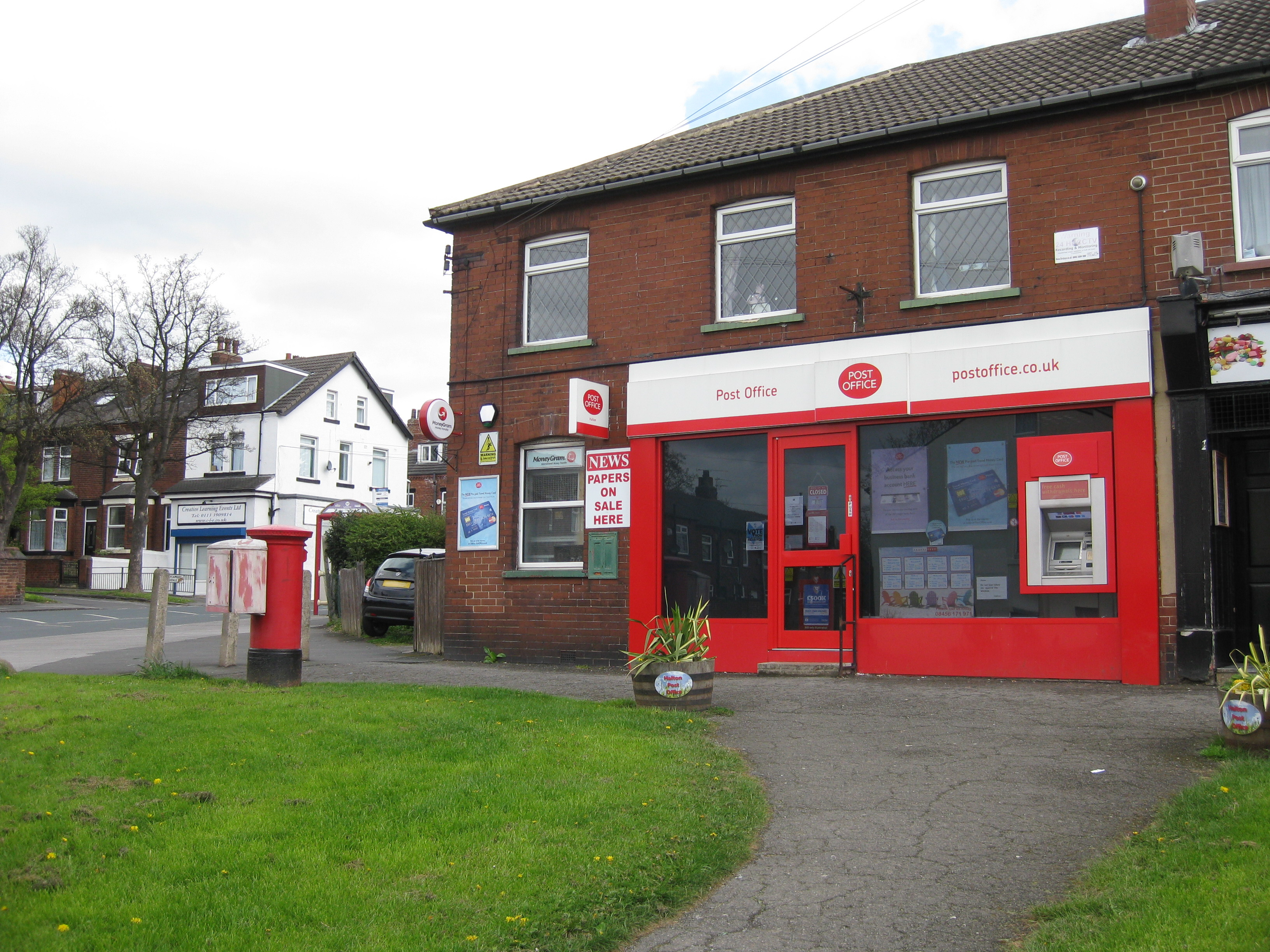 Halton Post Office, 3 Cross Green Lane, Leeds LS15 7SR. Pillar box.